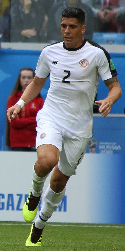 Philippe Coutinho, Johnny Acosta